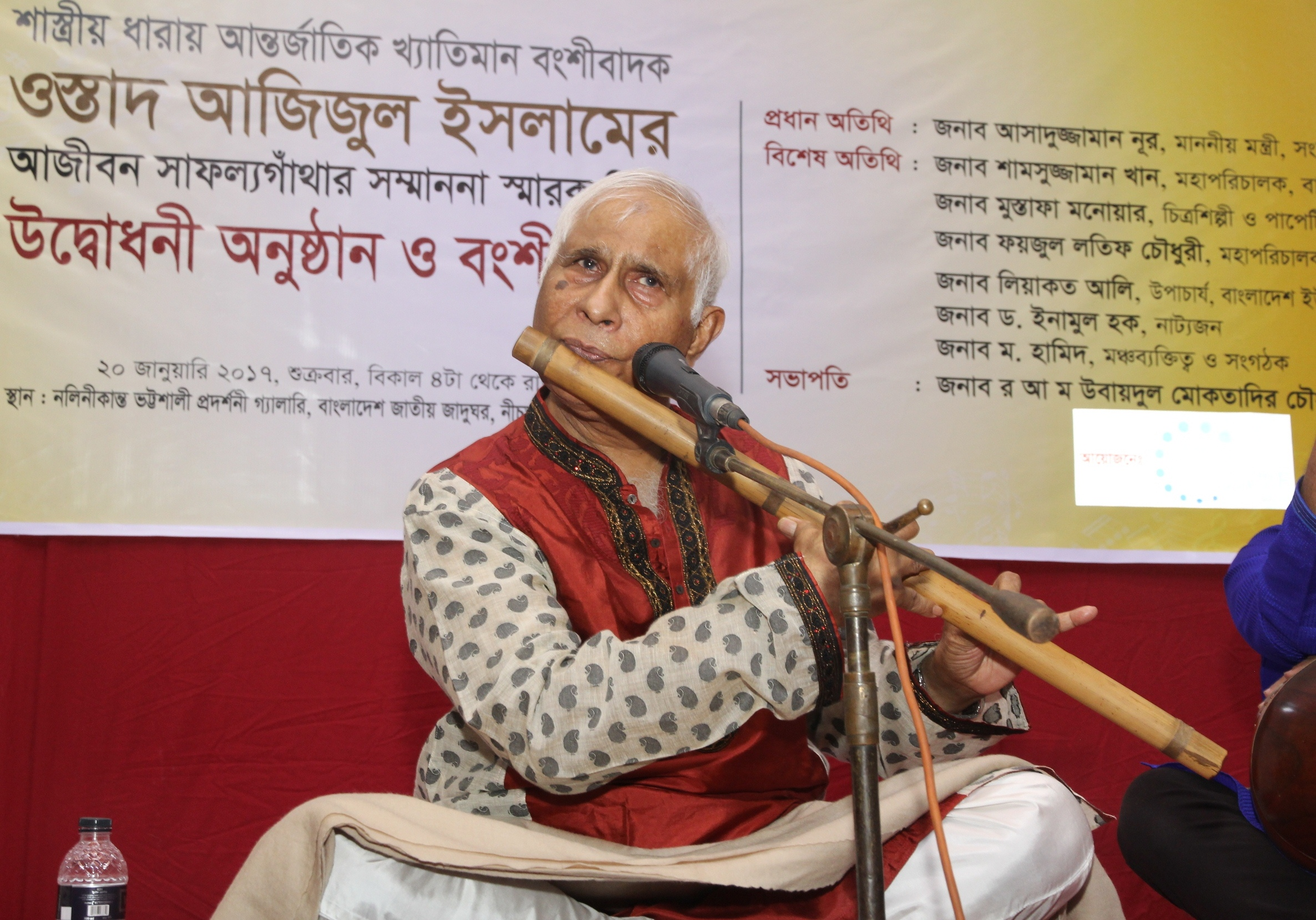 Photo of Ustad Azizul Islam playing flute, in Dhaka, in December 2016